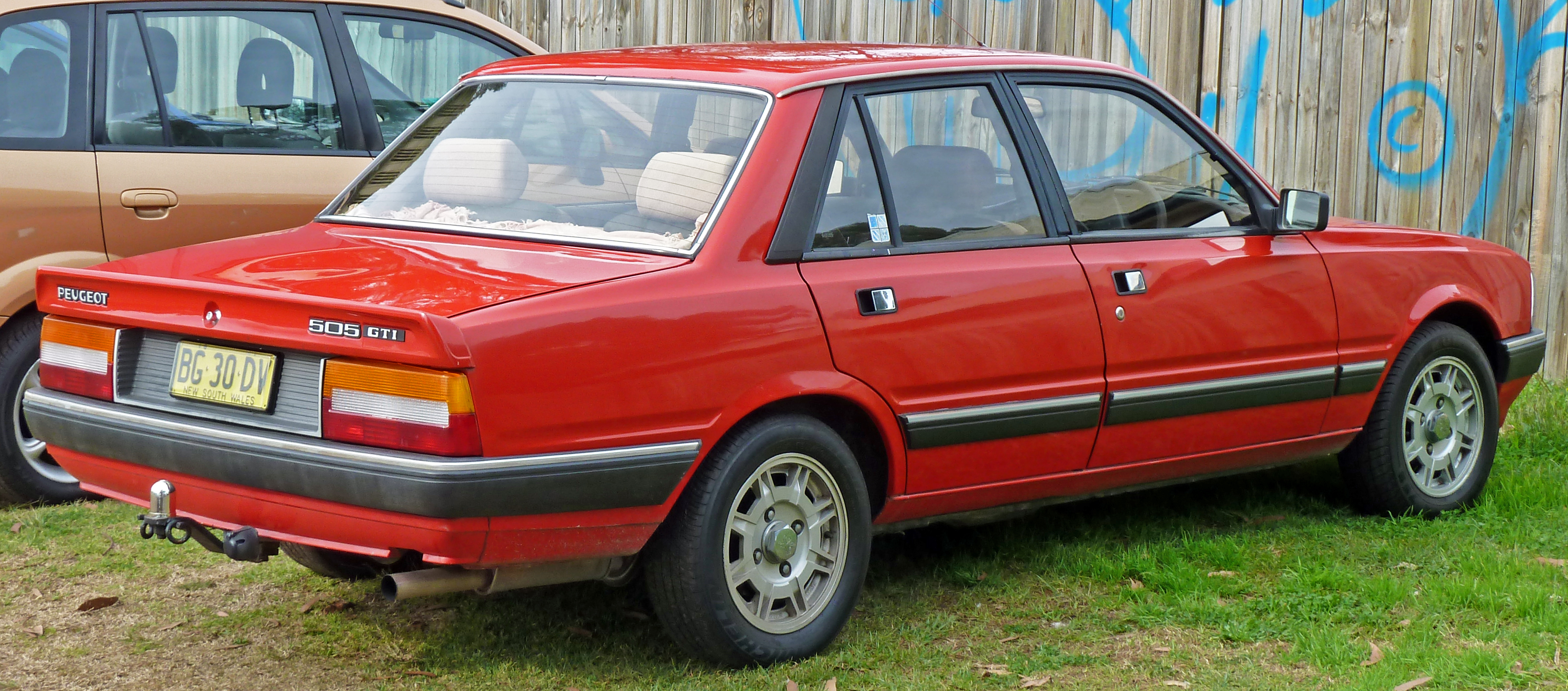 1985 Peugeot 505 GTI sedan. Photographed in Gymea, New South Wales, Australia.